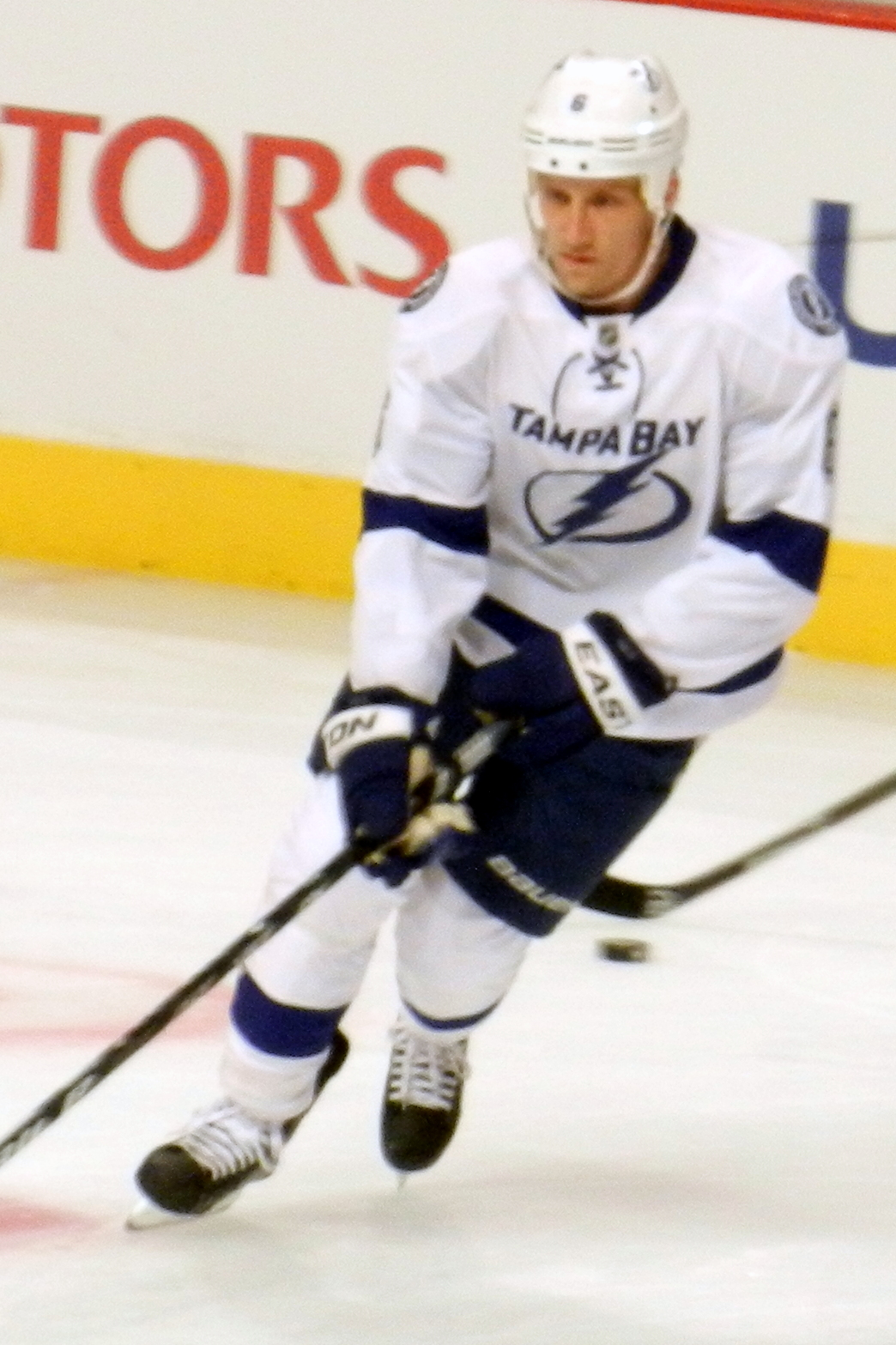 Sami Salo with the Tampa Bay Lightning during warm-up before a gamve vs. the Blackhawks at the United Center in Chicago